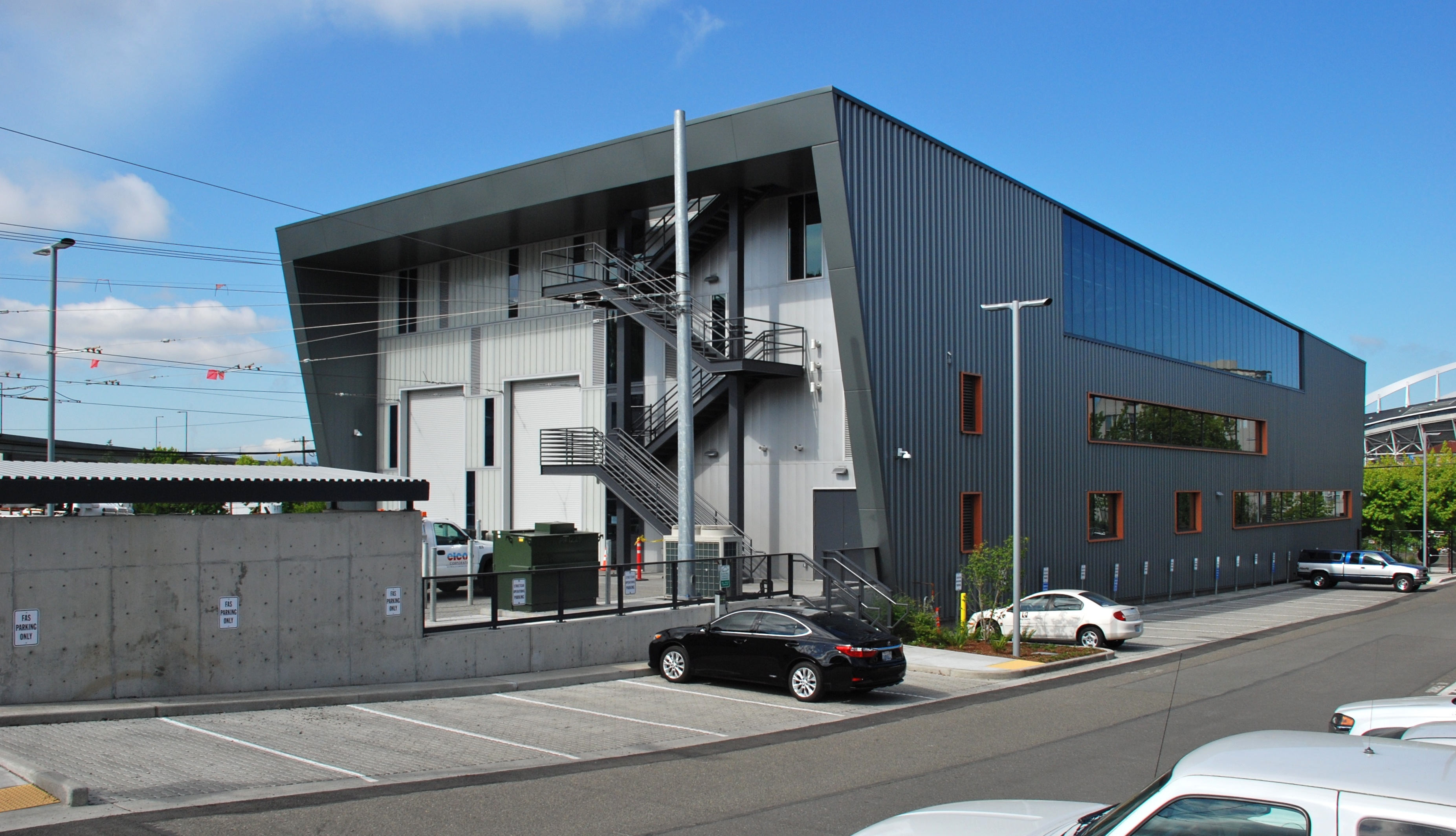 The recently completed maintenance facility (or carhouse) for the Seattle Streetcar system's second line, the First Hill Streetcar.